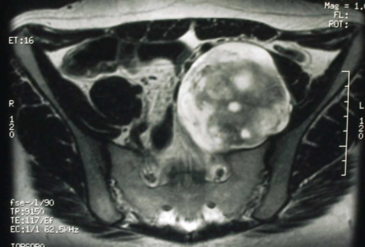 Computed tomographic scan of the pelvis showing a large, well-circumscribed presacral mass